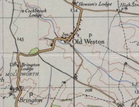 A map from the Ordance Survey showing Old Weston and its structures from the 20th century